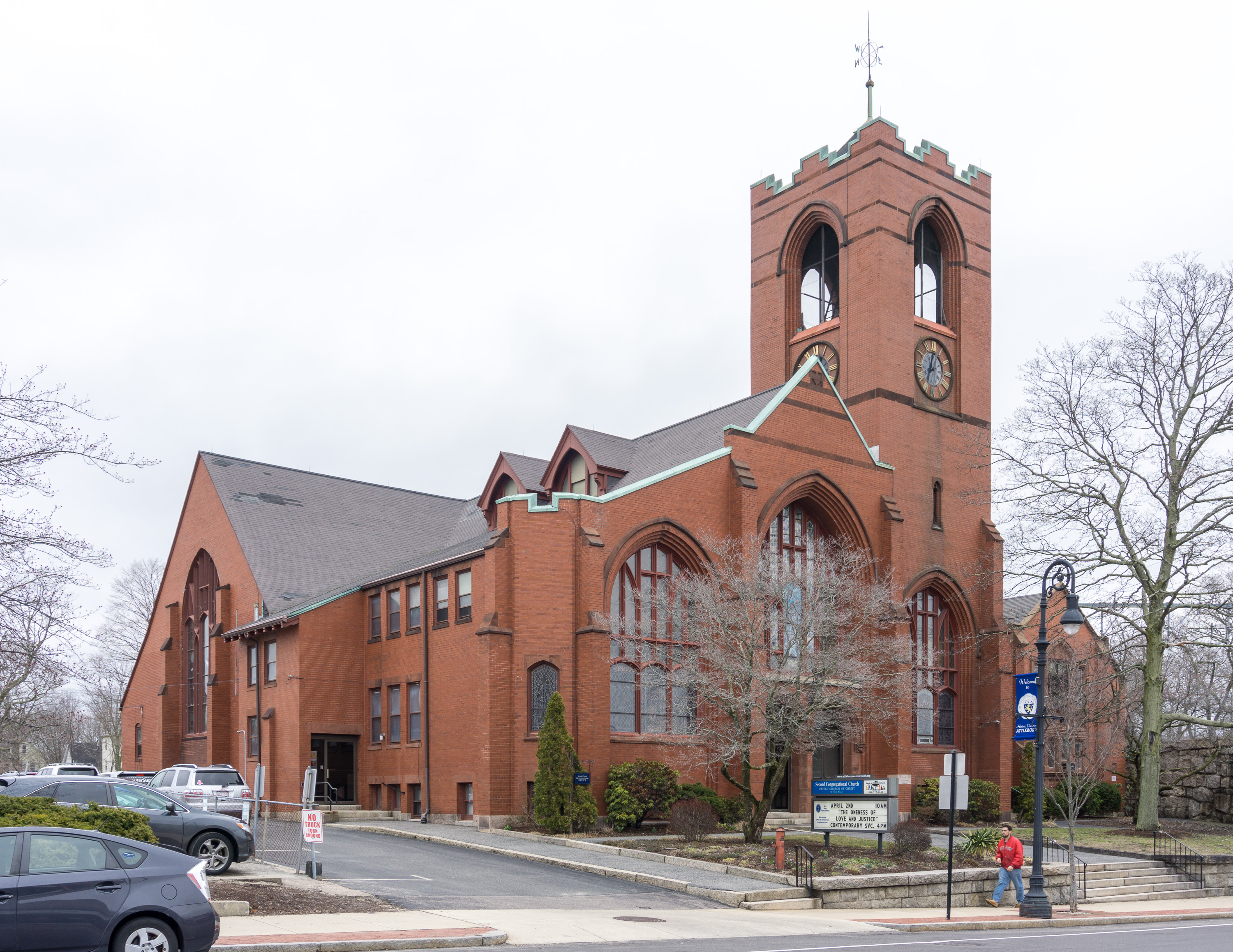 Second Congregational Church, UCC church, Attleboro, Massachusetts